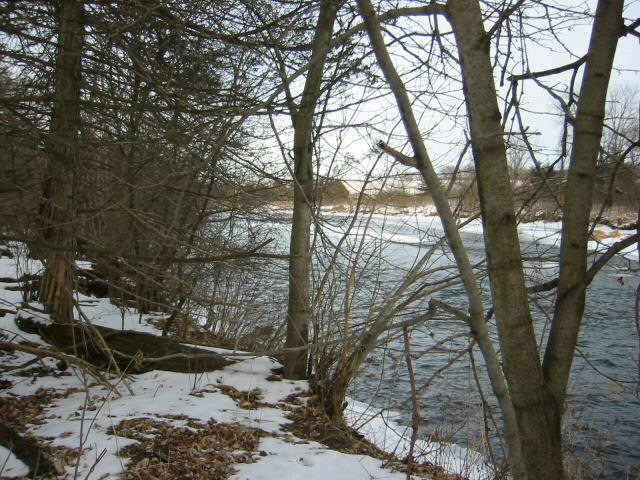 The Cannon River taken while snowshoeing in Miesville Ravine Park Reserve in February 2003.